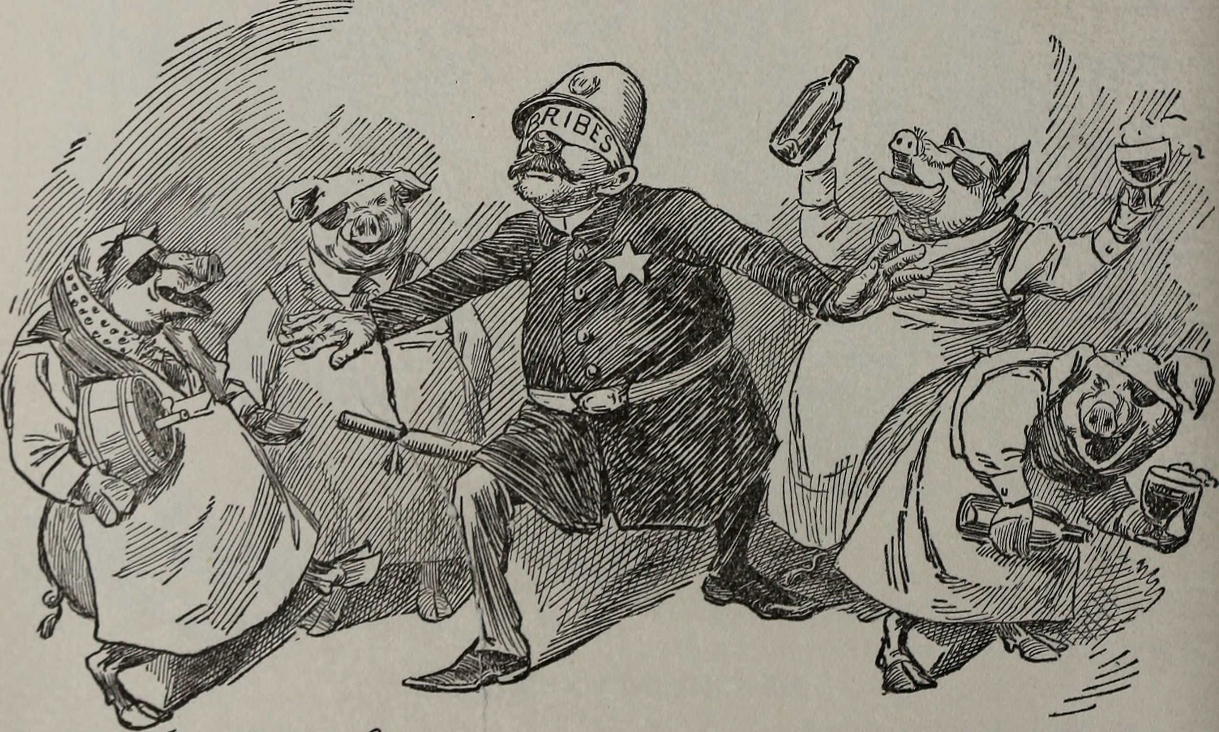 Title: "Blasts" from The Ram's Horn Year: 1902 (1900s) Authors: Subjects: Poetry Publisher: Chicago, The Ram's Horn Co. Text Appearing Before Image: There is something wrong with a church that prefers a lectureon phrenology to a red-hot prayer meeting. Text Appearing After Image: A GAME OF BLIND MANS BUFF WITH THE BLIND PIGS Blasts From The Rams Horn. 129